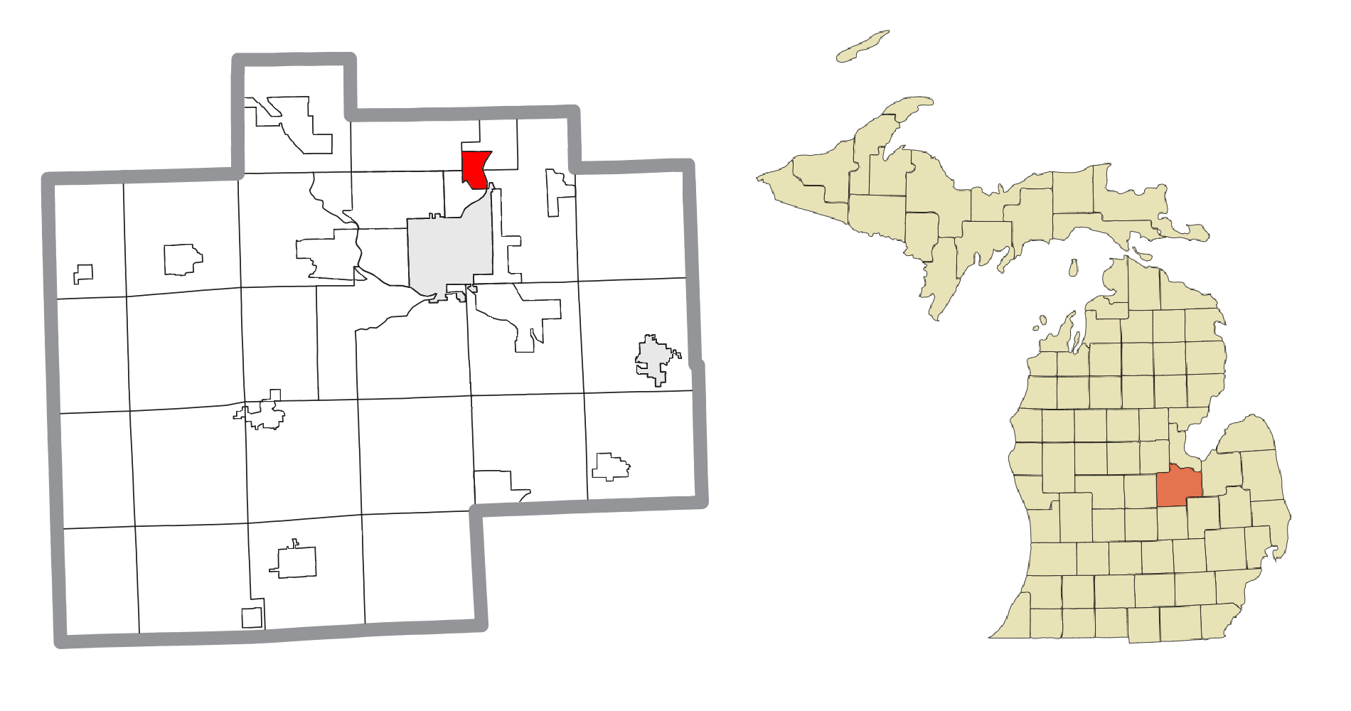 Zilwaukee, MI